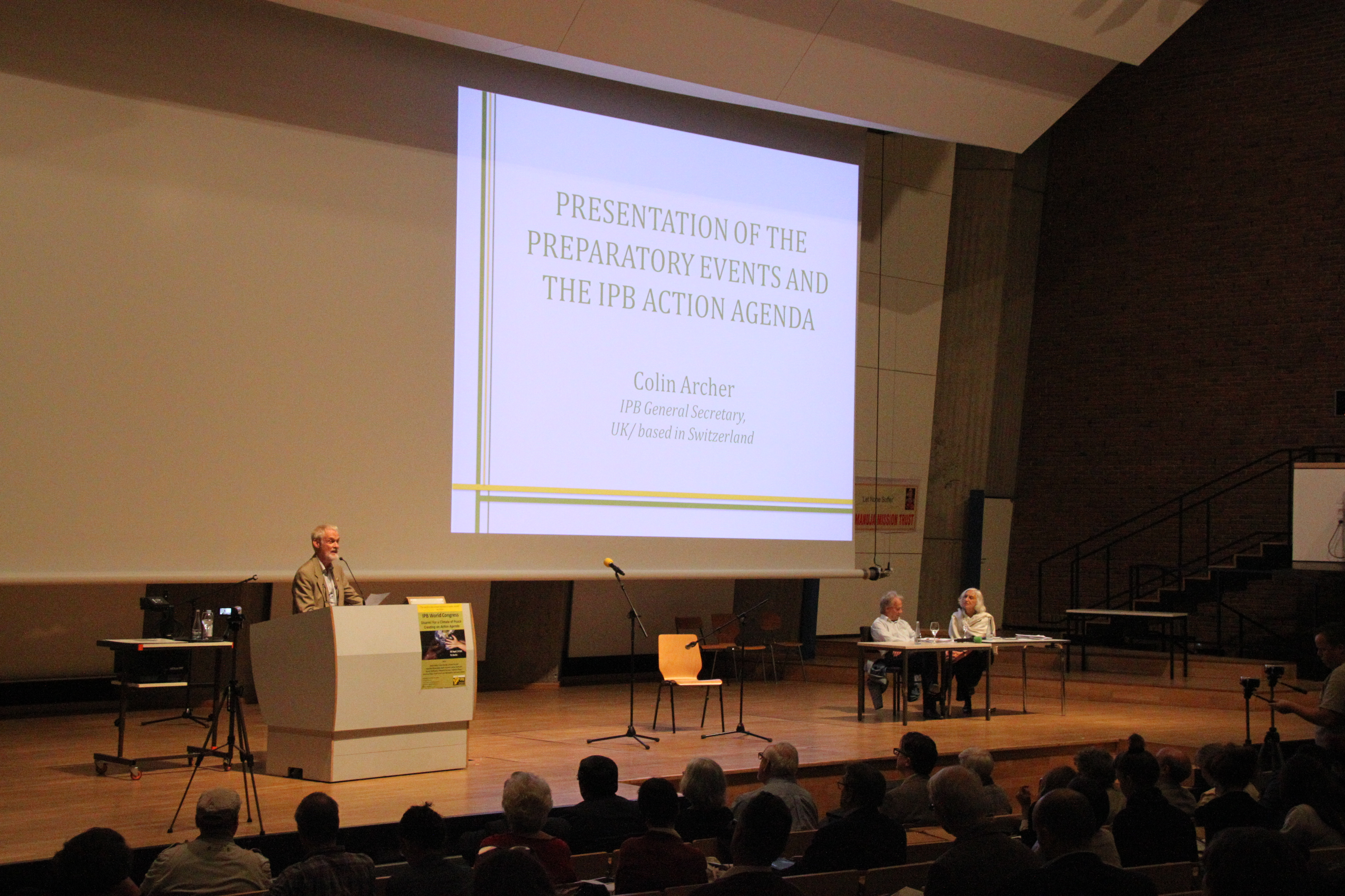 The opening session of the International Peace Bureau's (IPB) 2016 World Congress in Berlin, Germany.